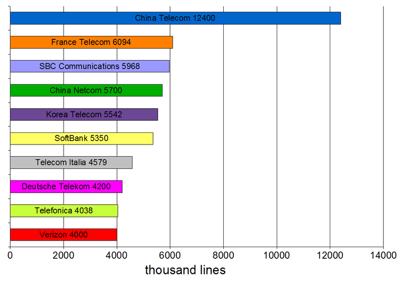 Worldwide major ADSL operators in number of lines, at the end of the first 2005 half.